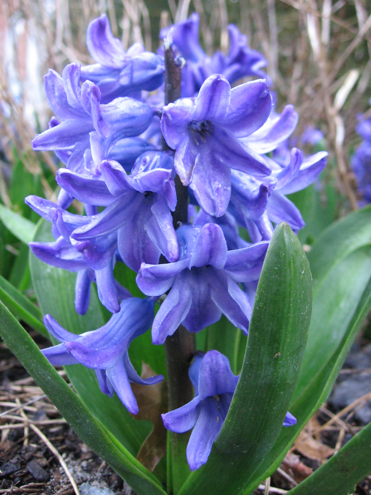 A blue hyacinth. Not sure what type it is though.